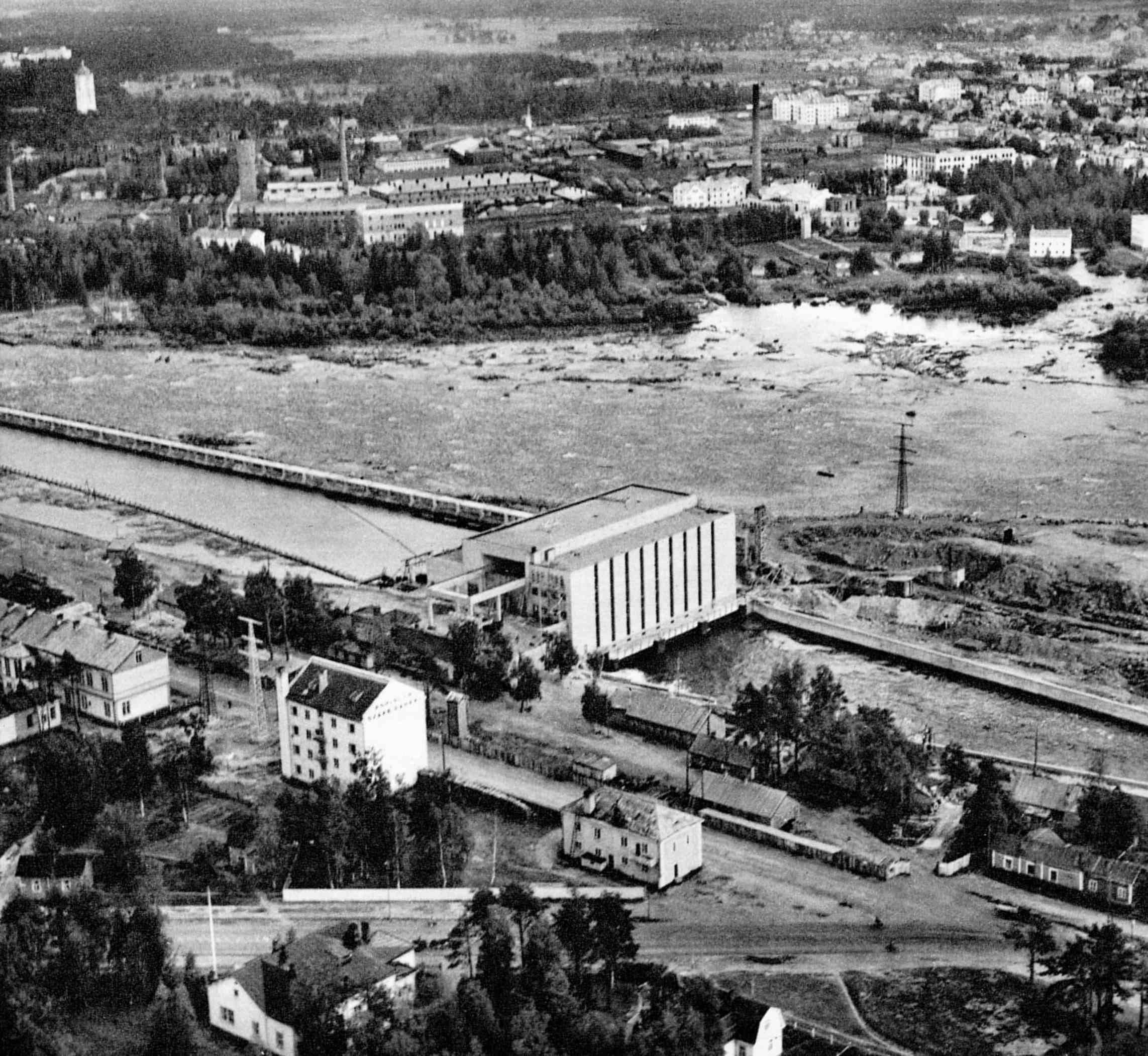 City of Oulu, Finland: Oulu river 1950